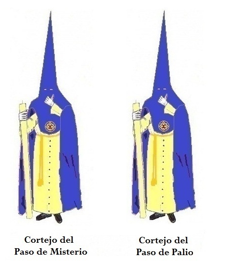 Nazareno Hermandad del Olivo